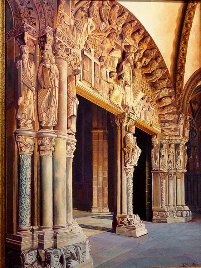 Portico de La Gloria - Catedral de Santiago de Compostela.